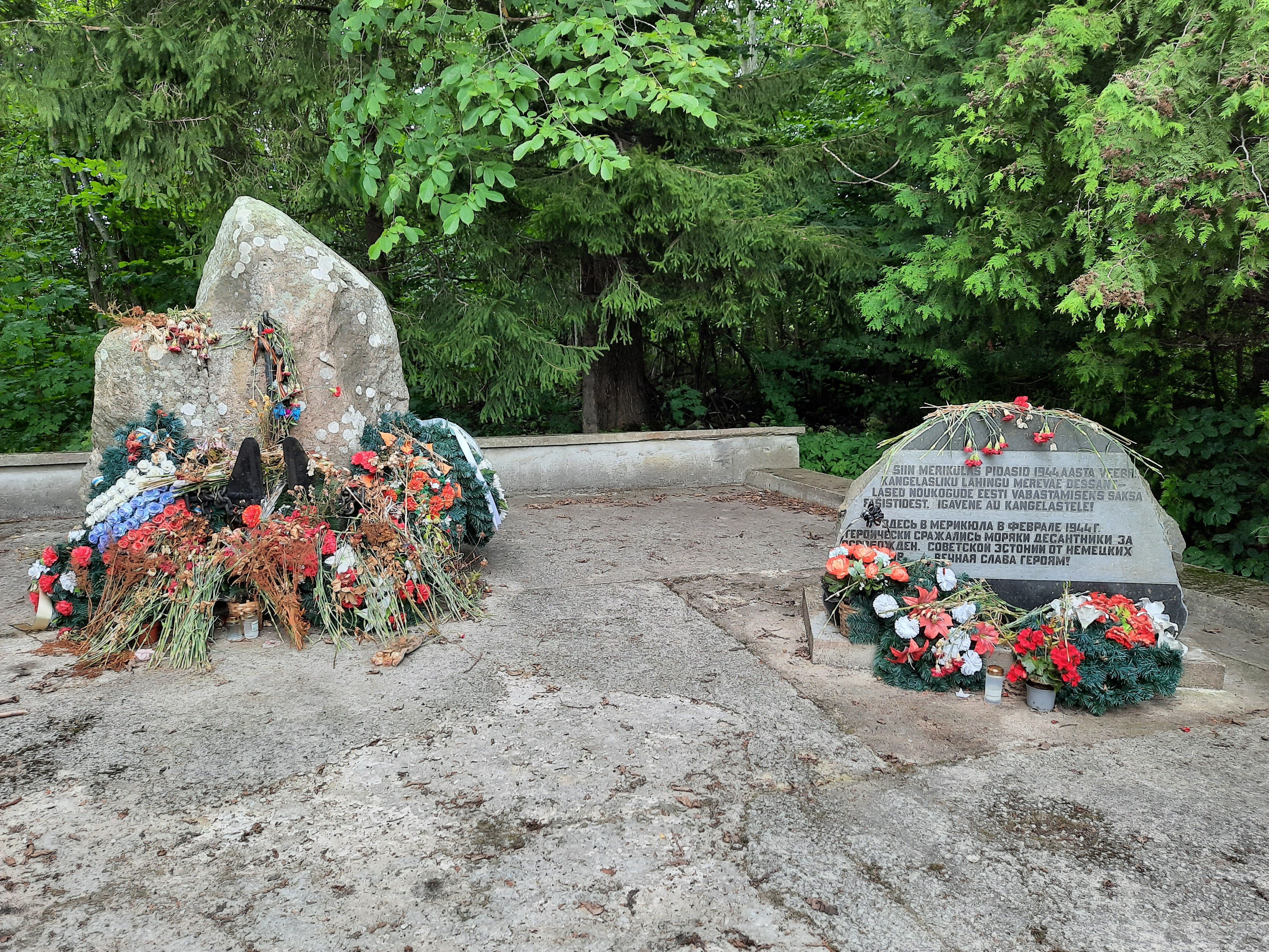 Soviet memorial near Meriküla